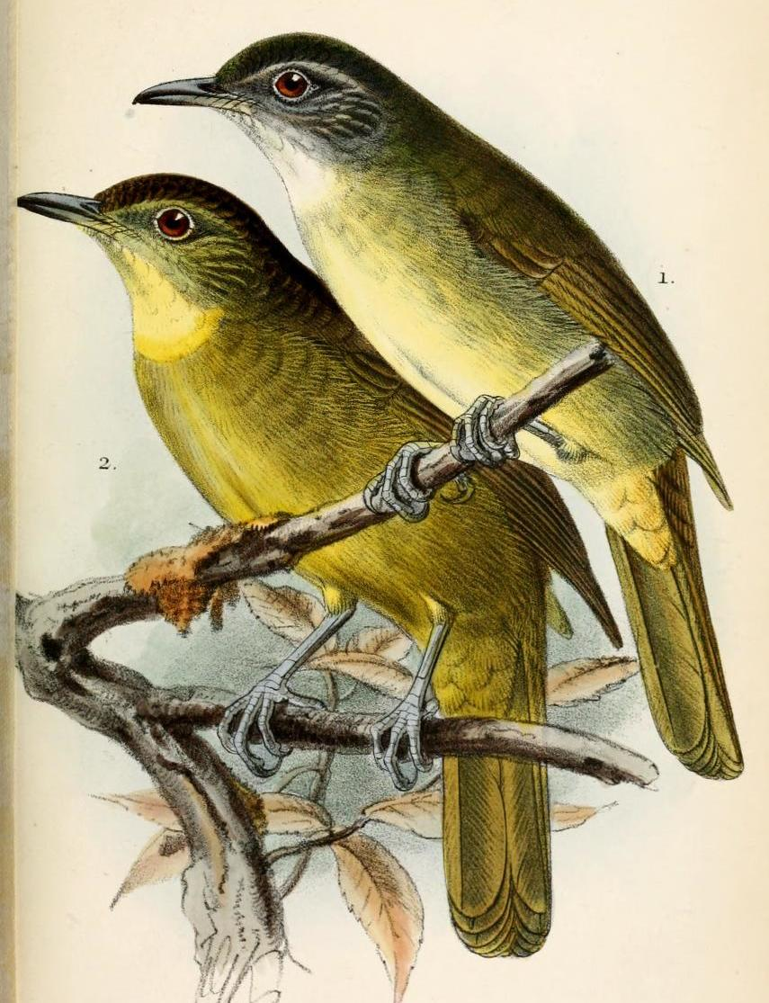 Xenocichla albigularis = Phyllastrephus albigularis, White-throated Greenbul (above); and Xenocichla olivacea = Criniger olivaceus, Yellow-throated Olive Greenbul (below)